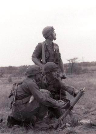 60mm Patmore